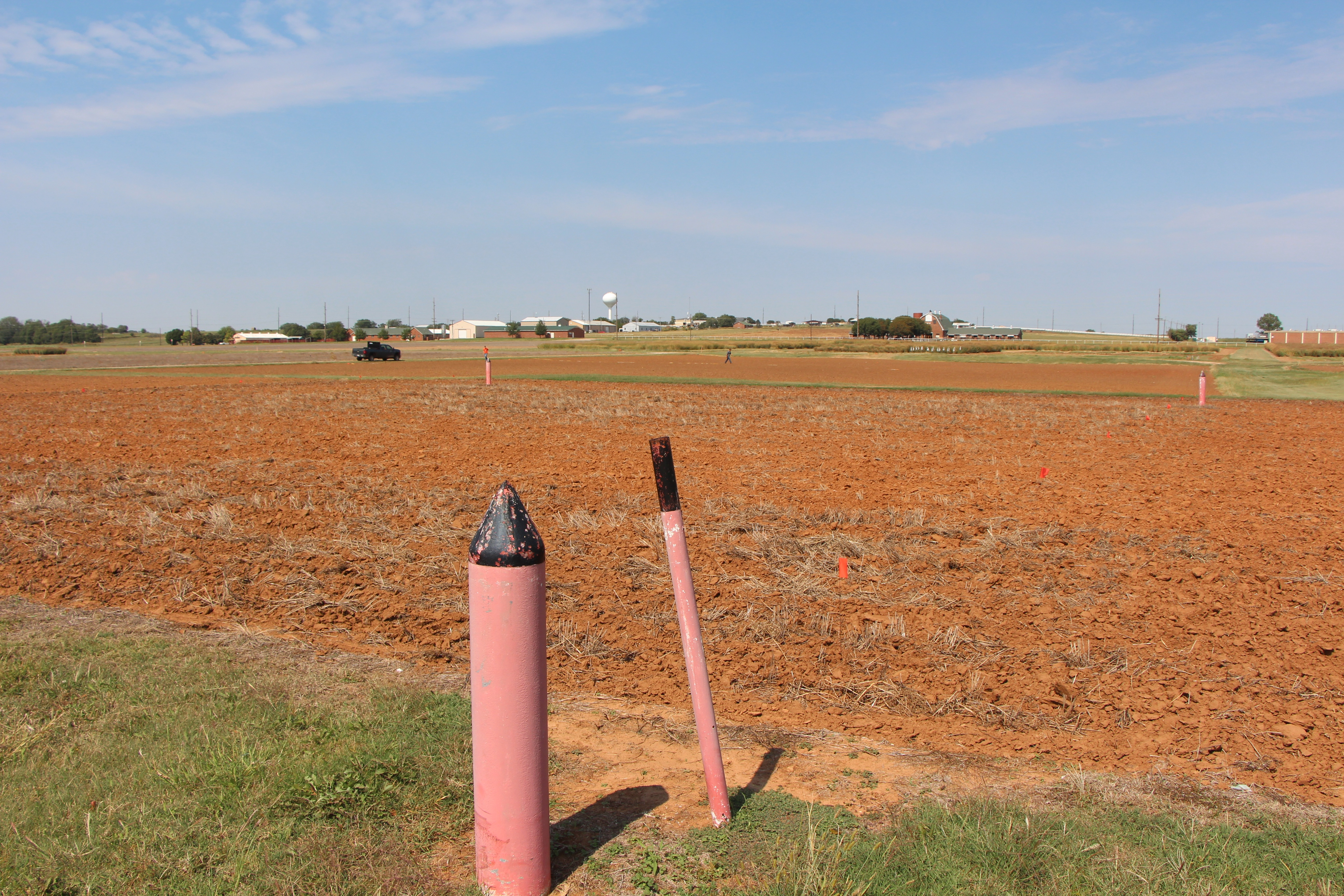 Magruder Plots, Oklahoma State University–Stillwater. Boundaries identified by pink posts; unfertilized "check" plot visible with less stubble.